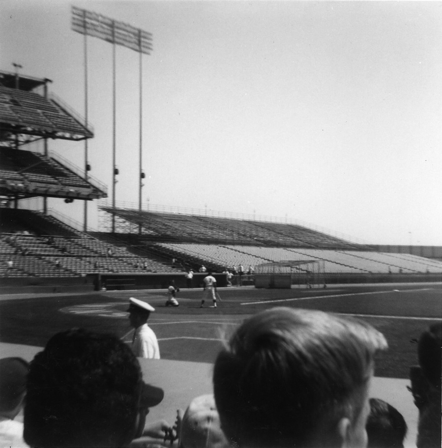 This was batting practice before game. Lenny Green at plate